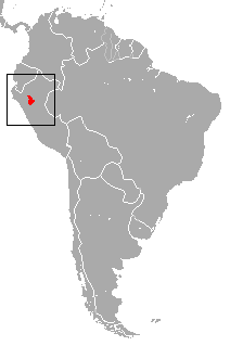 Rio Mayo Titi (Callicebus oenanthe) range